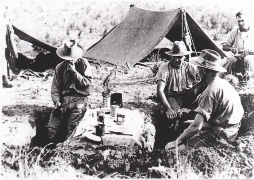 Men from the Imperial Camel Corps eating a meal in their camp